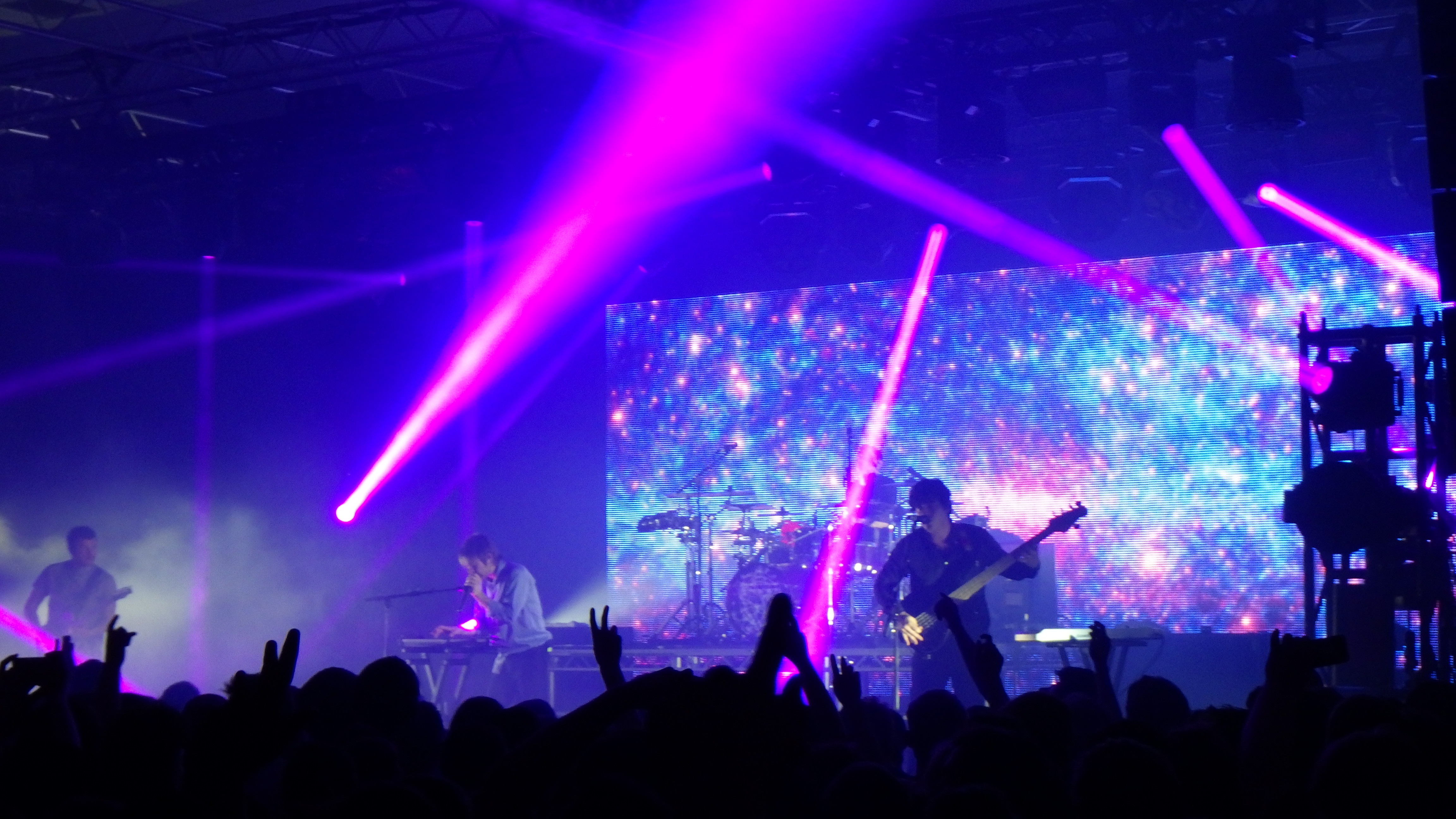 British band Enter Shikari live in Bournemouth, February 2016